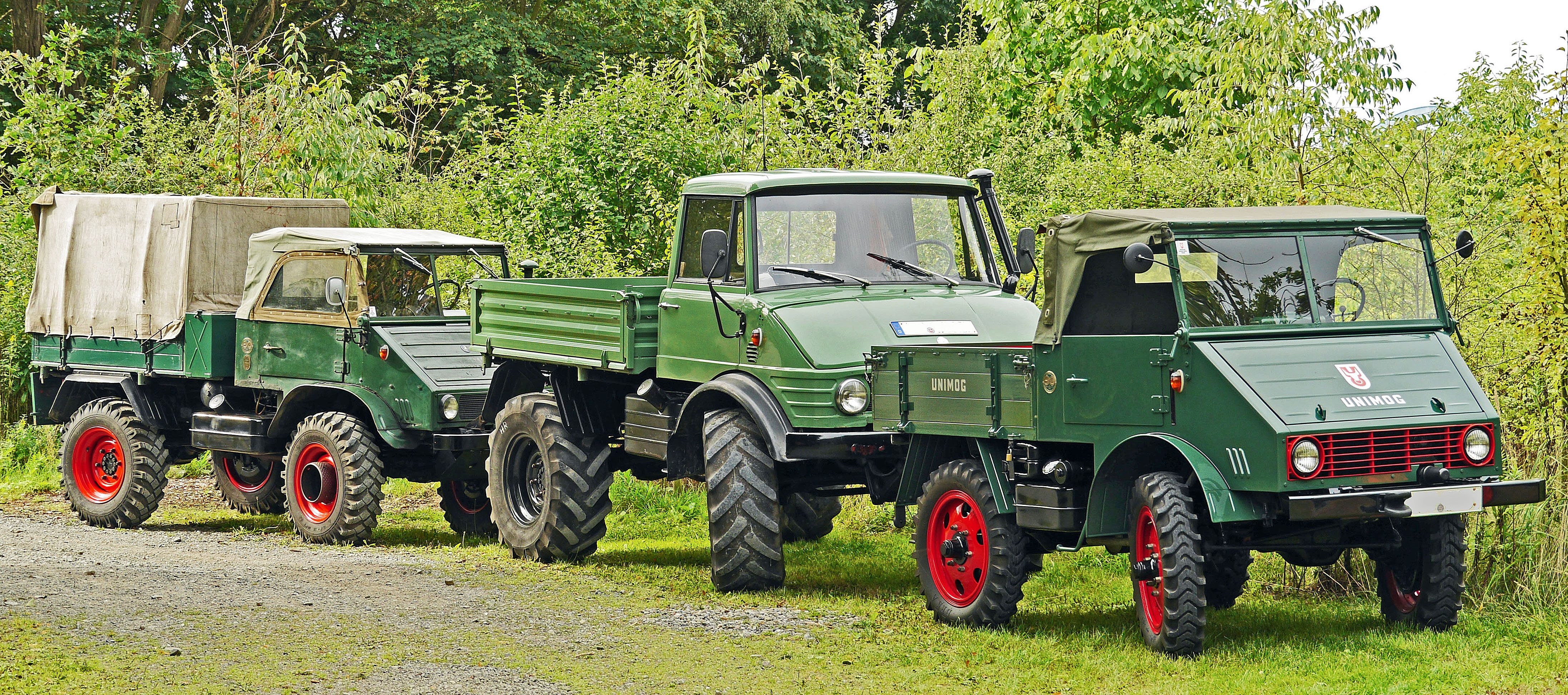 Boehringer/Mercedes-Benz Unimog 401, 406 and 411